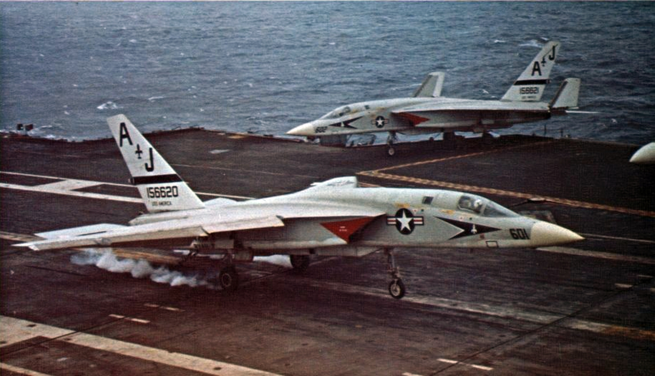 A U.S. Navy North American RA-5C Vigilante (BuNo 156620) from Heavy Reconnaissance Squadron RVAH-6 Fleurs landing aboard the aircraft carrier USS America (CVA-66). RVAH-6 was assigned to Carrier Air Wing 8 (CVW-8) aboard the America for a deployment to Vietnam from 5 June 1972 to 24 March 1973.